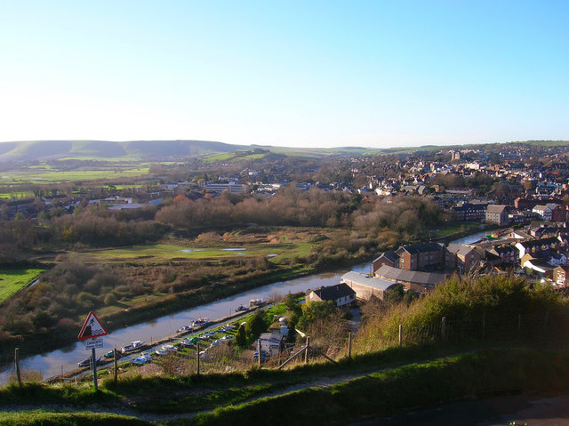 Cliffe Cut, River Ouse Taken from the cliff on Chapel Hill near the golf club and looking down onto the town. The stretch of river in the foreground is Cliffe Cut undertaken when the Ouse was canalised in the late 1790s. The original course of the river meandered to the east by the boathouse next to Hilman Close, the circular set of flats. Beyond the river can be seen the Heart Of Reeds which can be found 291632 along with an opposite view. It was also at this point that Britain's worst ever avalanche occurred on Christmas Eve 1836 when a 15 foot snowdrift perched on this cliff top collapsed onto houses below killing 8 people. The current Snowdrop Inn below is named after this event. Other views which can be taken in include the castle to the right and the downs at Kingston ridge on the left hand side.